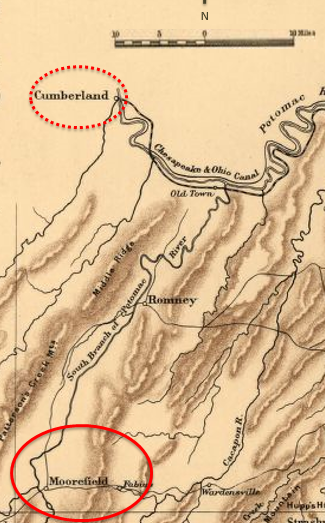 The map shows the region near Moorefield, West Virginia, where the Battle of Moorefield took place on August 7, 1864. In this American Civil War battle, Union General William W. Averell surprised and defeated Confederate General John McCausland's larger force.